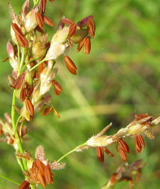 Closeup of some Johnson Grass flowers